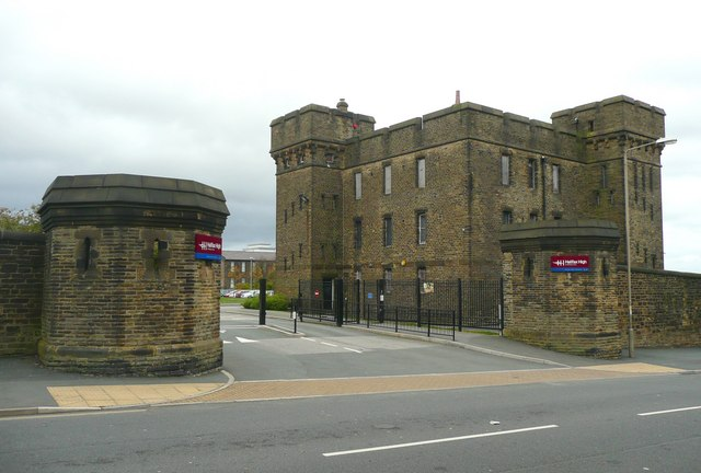 Entrance to former barracks, Gibbet Street, Halifax This could be called 'Halifax Castle'! It was the barracks of the 33rd Regimental District, according the 1907 OS map, and is now part of Halifax High School.